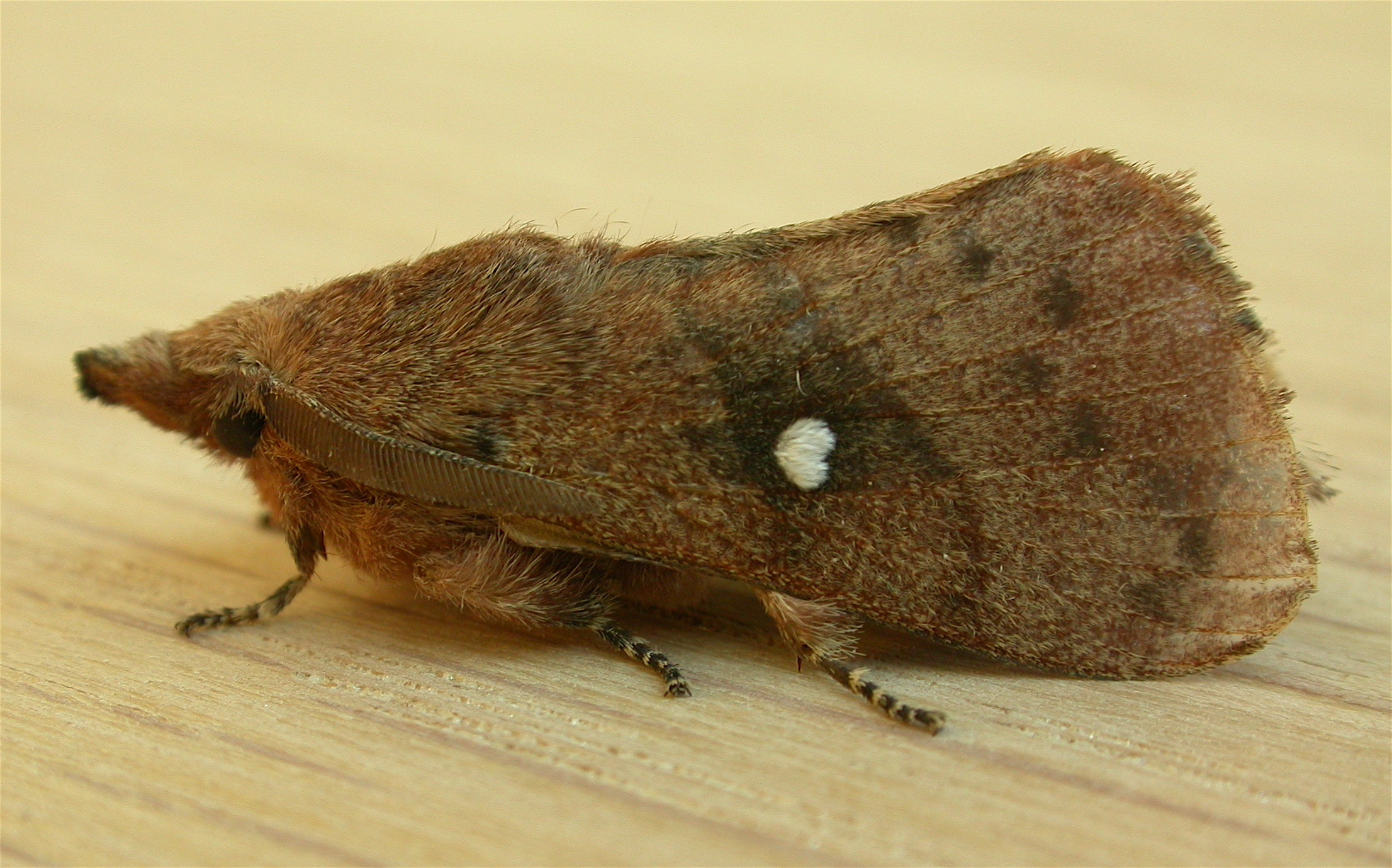 Opsirhina lechriodes (Turner, 1911), male, to MV light in Aranda, ACT, 28/29 March 2008